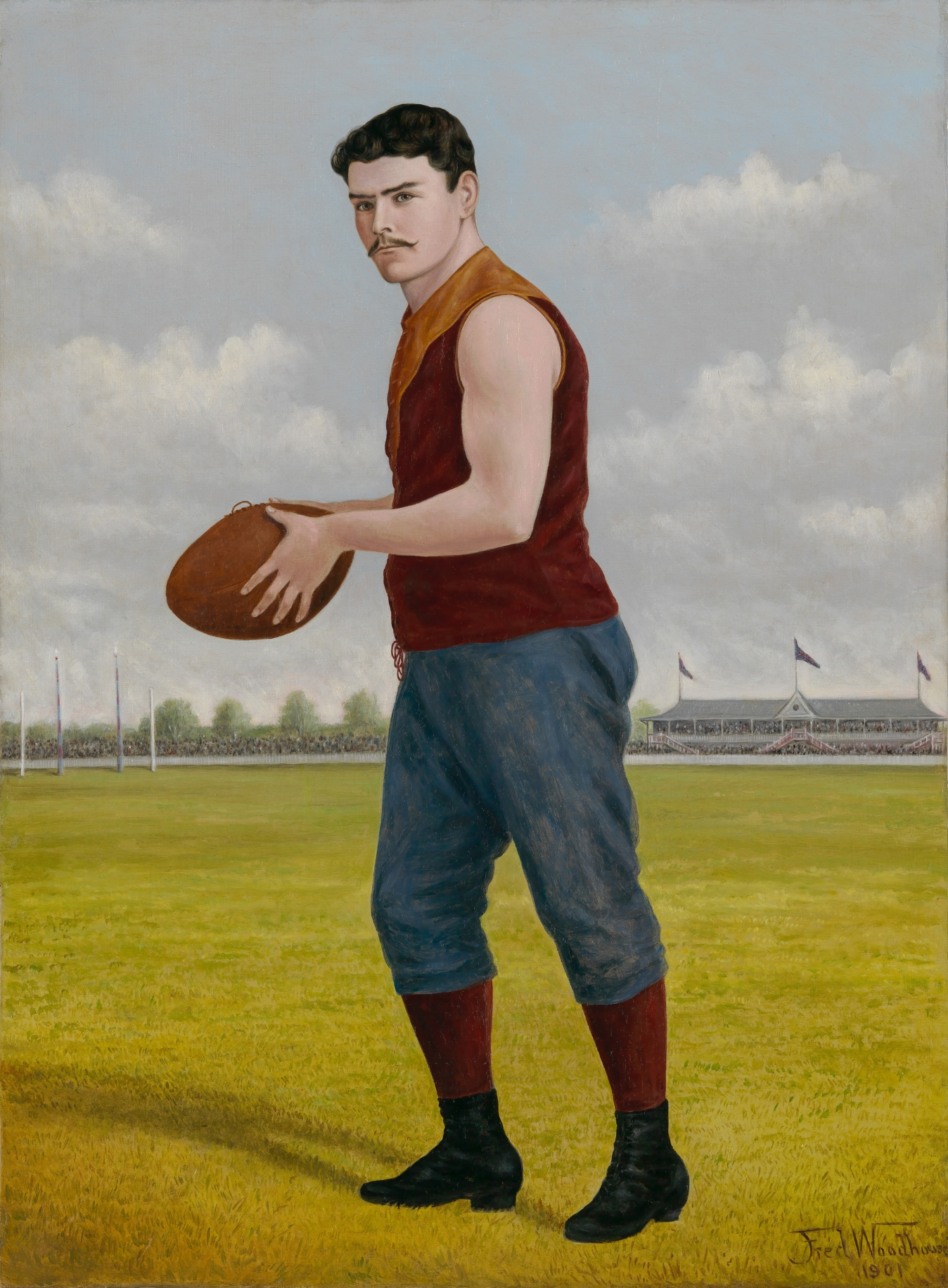 Painting of Australian rules footballer Geoff Moriarty, player and coach with the Fitzroy Football Club in the Victorian Football League (VFL).